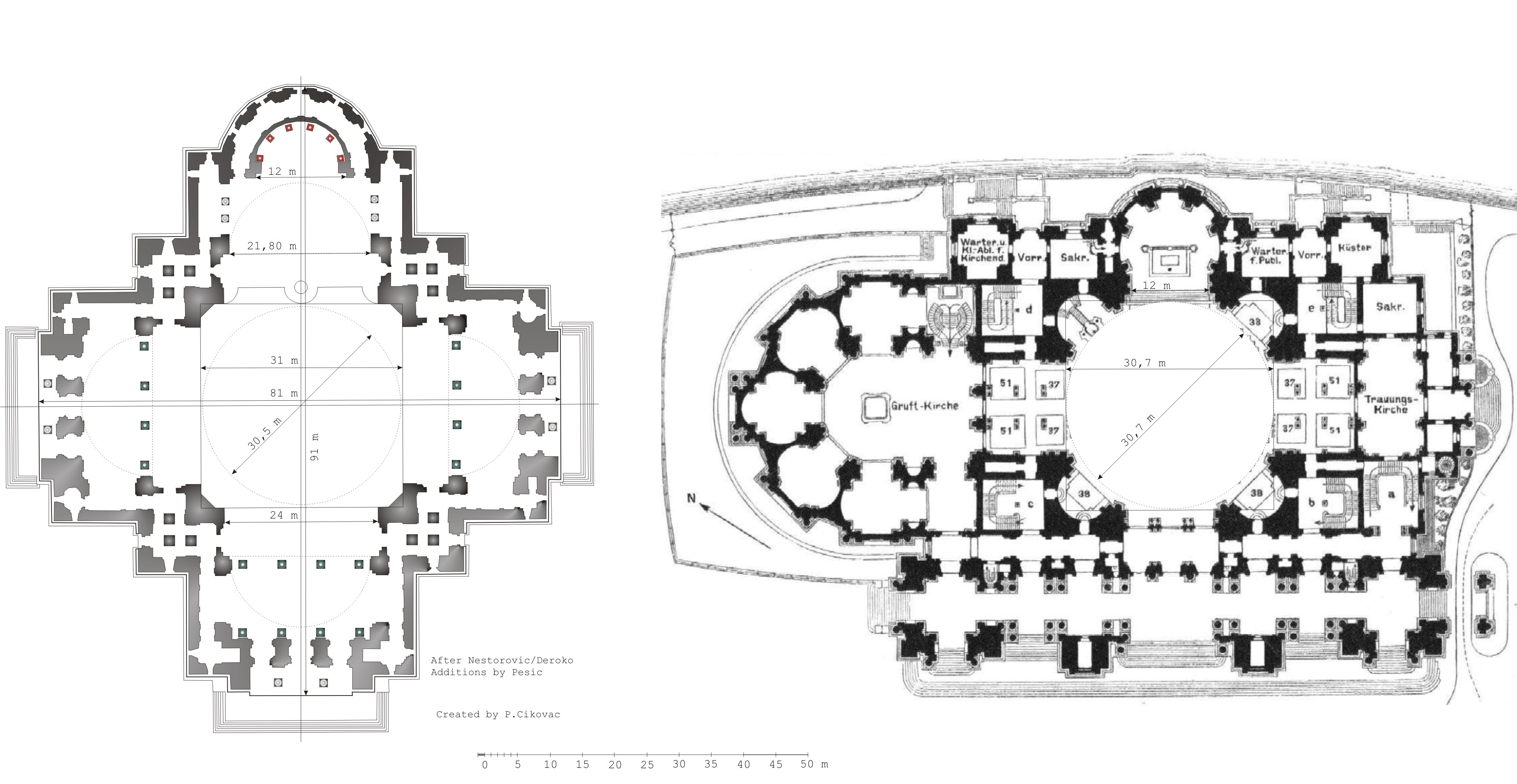 floorpan comparison Temple of St Save and Cathedral in Berlin